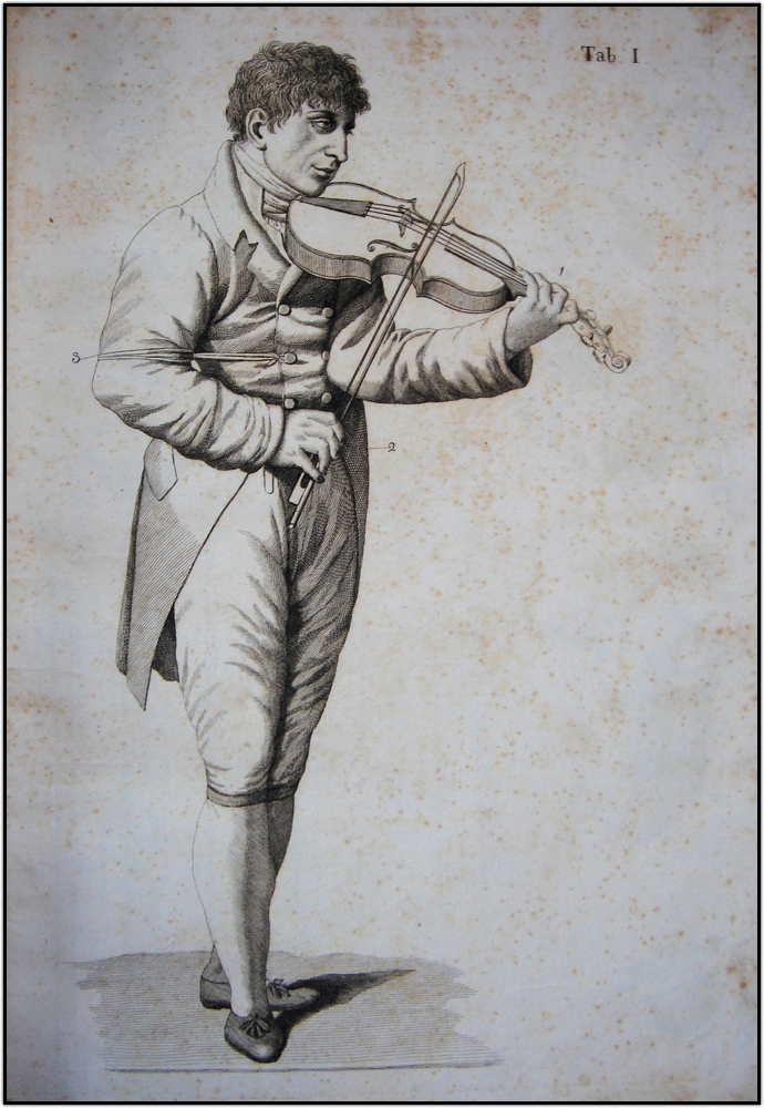 Violinist in the violinmethod op.21 by Bartolomeo Campagnoli (1751-1827).